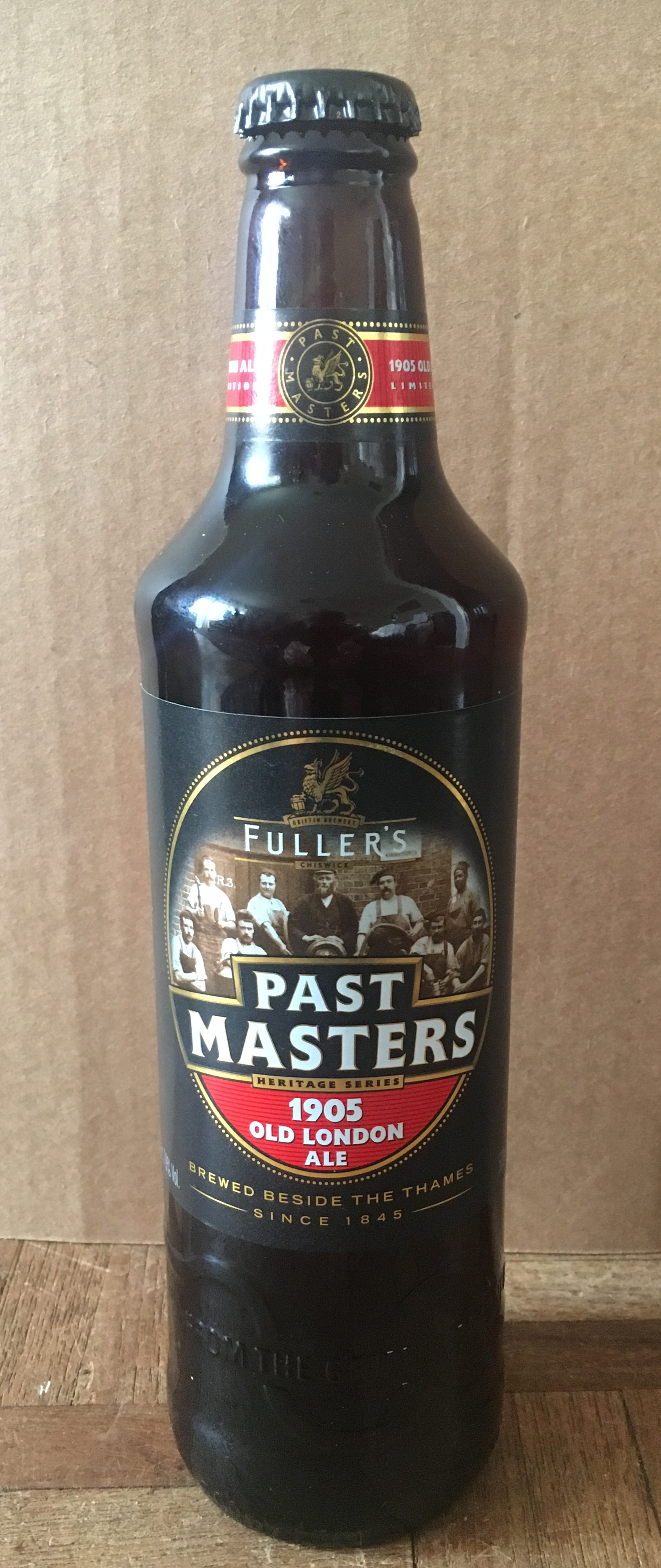 Photograph of a bottle of Fuller's 1905 Old London Ale, issued as part of the brewer's Past Masters Heritage Series.